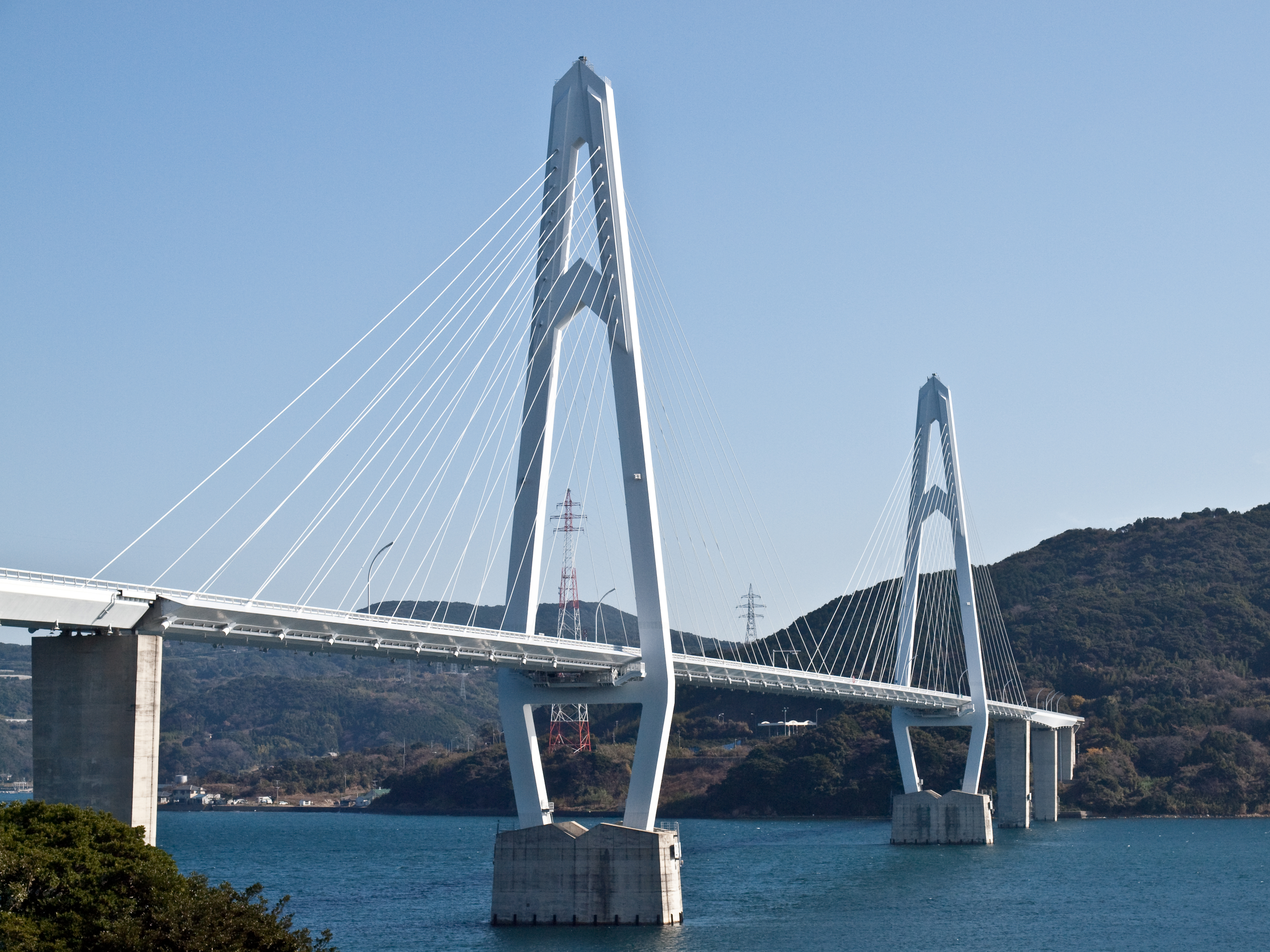 Ōshima Bridge